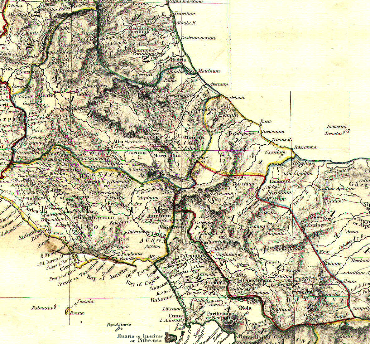 Reference map for Roman Samnium, Frentani and Sabina